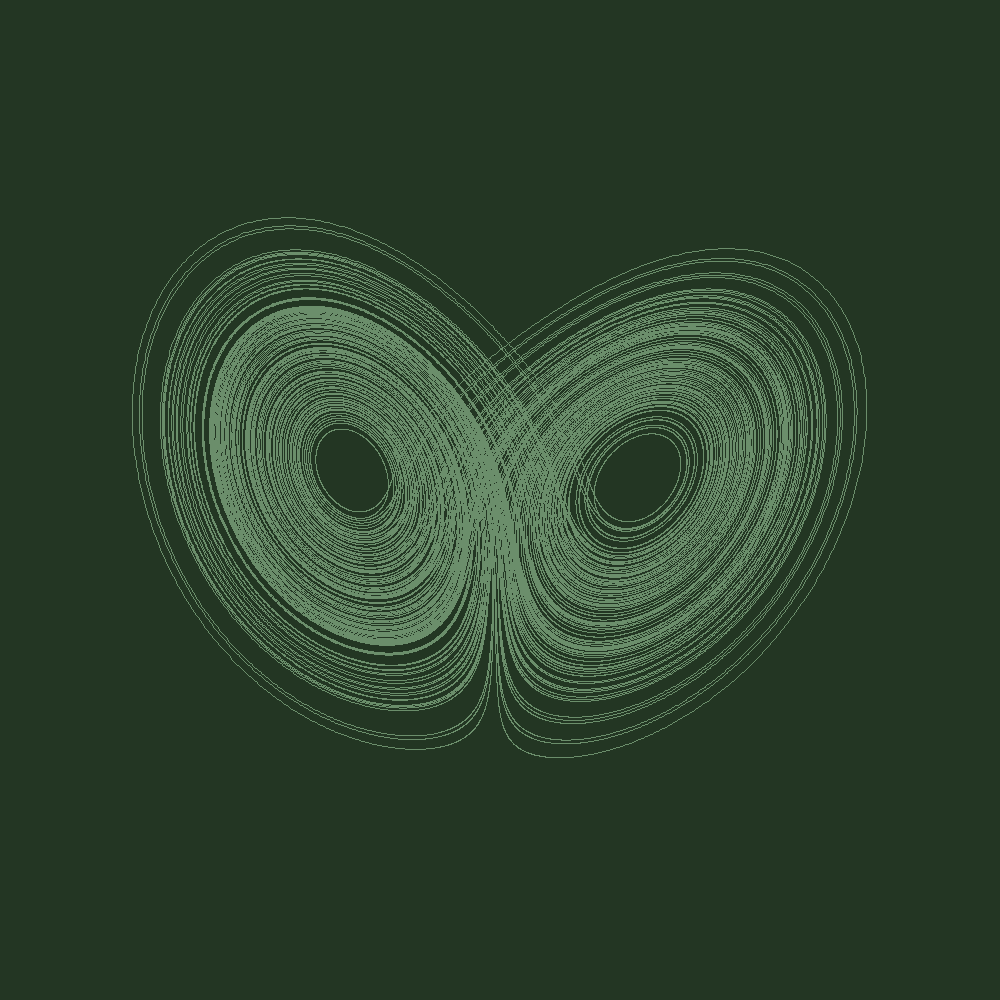 Lorenz attraktor for parameter values r=28, σ = 10, b = 8/3. To obtain the data for the plot I used the 4th order Runge-Kutta method in my C program, that was running under debian linux. I plotted the data using the free gnuplot program. Image created by Cumi.